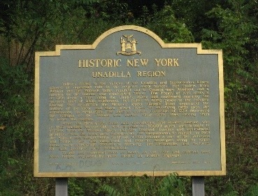 Historic marker of Historic New York, Unadilla Region. Indians living in the valleys of the Unadilla and Susquehanna Rivers played an important role the region's early history.